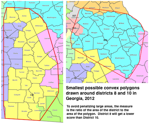 This shows how a rubber-band polygon around a congressional district can help measure how gerrymandered it might be. The yellow district will get a lower score than the aqua district. The areas that aren't yellow inside the polygon, like the purple and pink areas, lower the score. A district that was already a convex polygon, like Wyoming, would get a perfect 1.0 score.